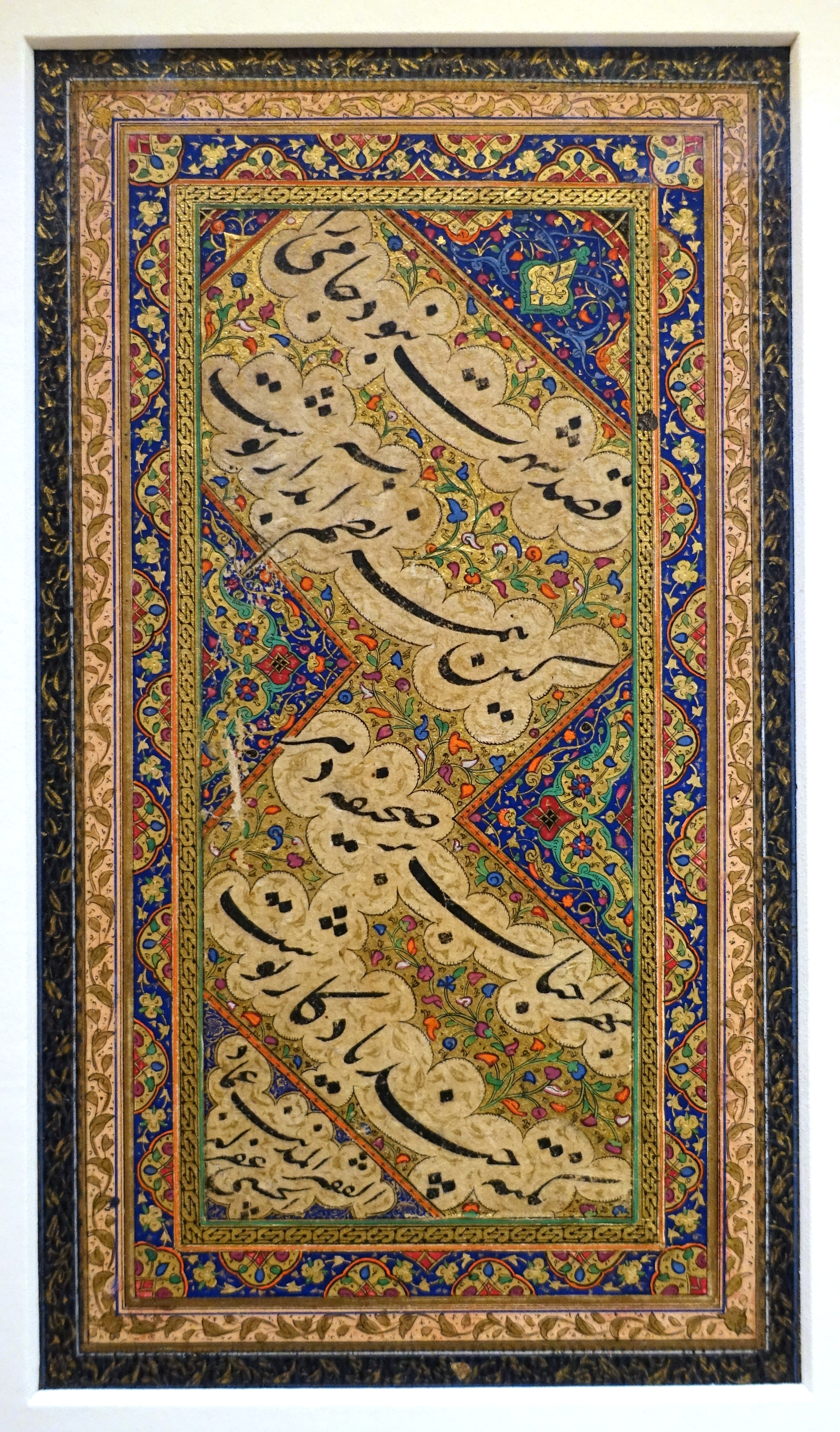 Exhibit in the Aga Khan Museum - Toronto, Canada. This work is old enough so that it is in the public domain.